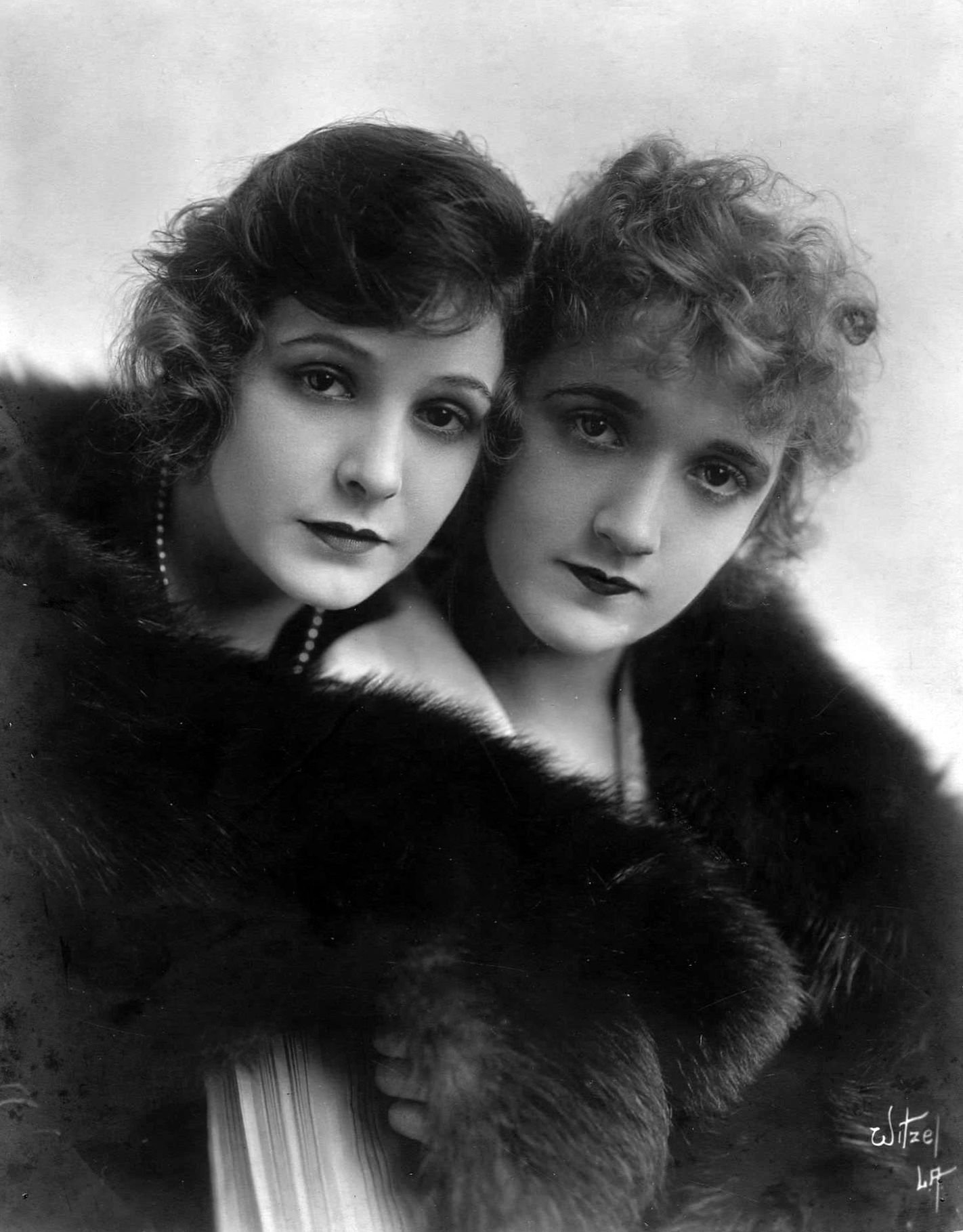 Depicted people: Norma Talmadge and Constance Talmadge